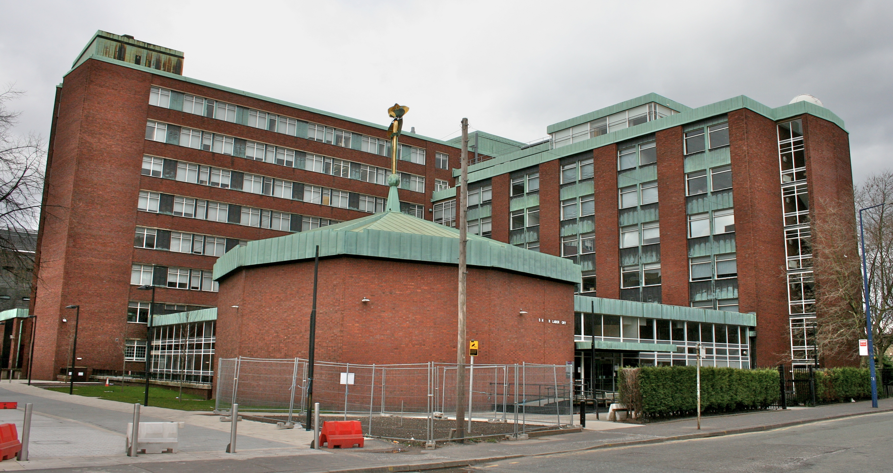 The Schuster Laboratory, University of Manchester, England.